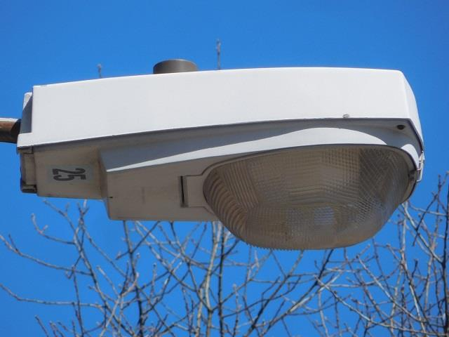 History of street lighting